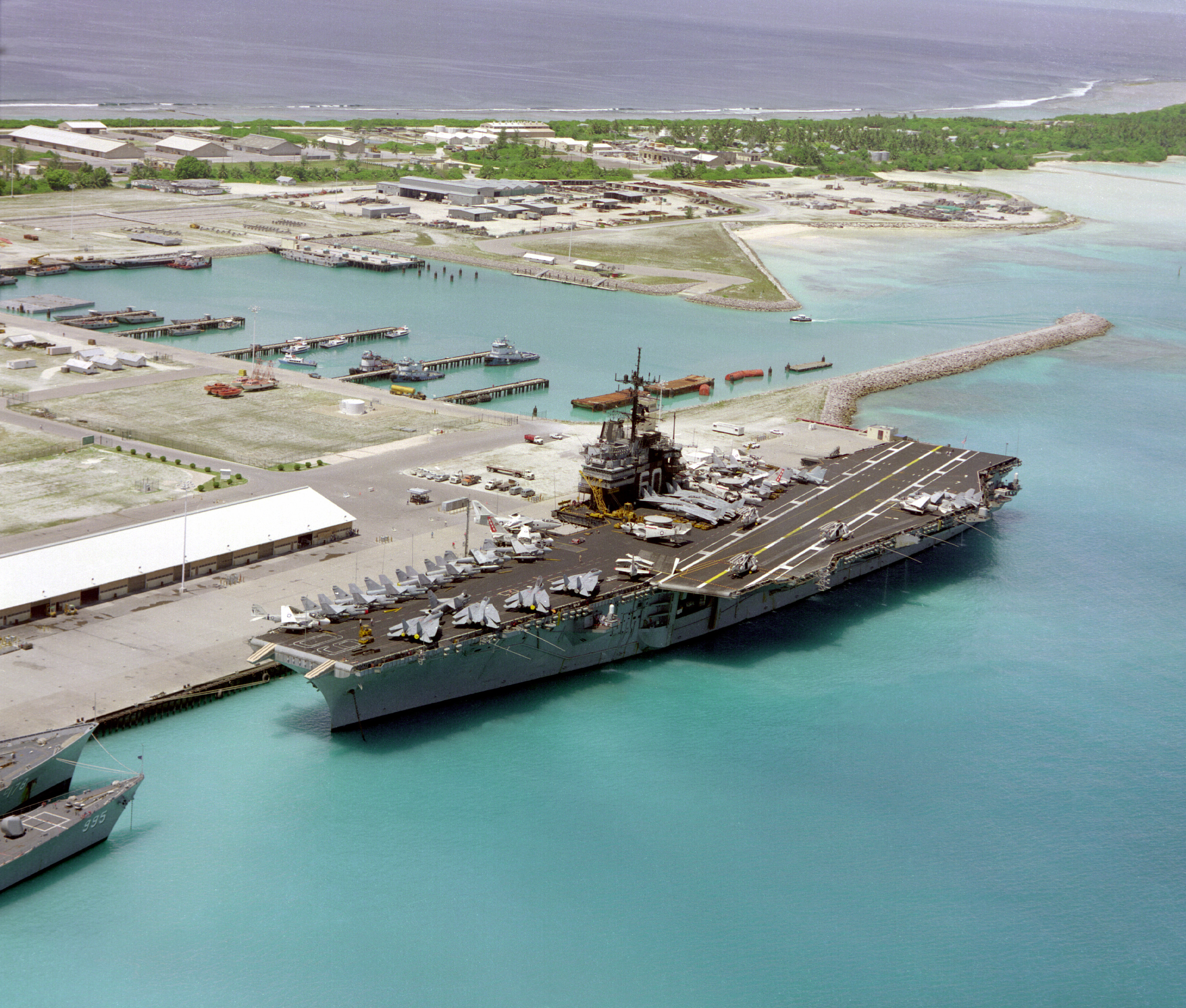 An aerial port bow view of the aircraft carrier USS SARATOGA (CV-60) tied up at pier. This is the first time an aircraft carrier has docked at the island Diego Garcia. On 5 December, SARATOGA proceeded south to Diego Garcia where the SARATOGA became the fist aircraft carrier to pull up pierside in that facility's history.